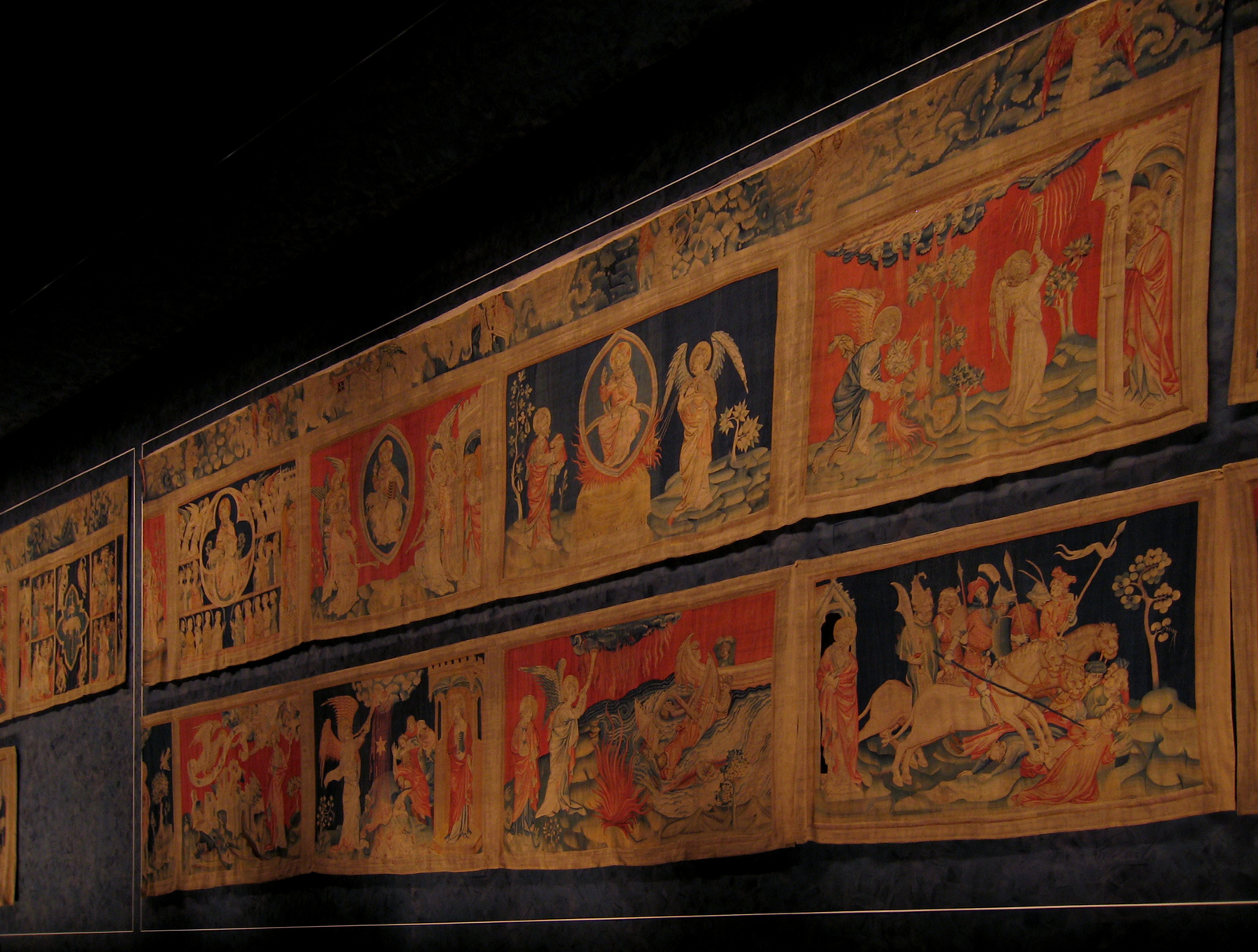 An outstanding example of tapestry art is the famous Angers Apocalypse, located in the Castle of Angers in the county of Maine-et-Loire/France.